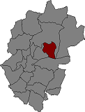 Location of Poboleda in Priorat